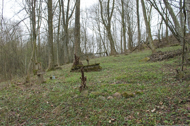 Vitiniai cemetery, Klaipėda district, Lithuania